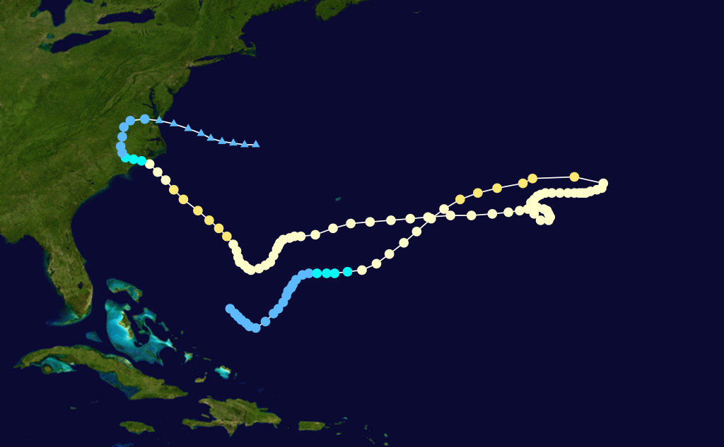 Hurricane Ginger (1971) track. Uses the color scheme from the Saffir-Simpson Hurricane Scale.